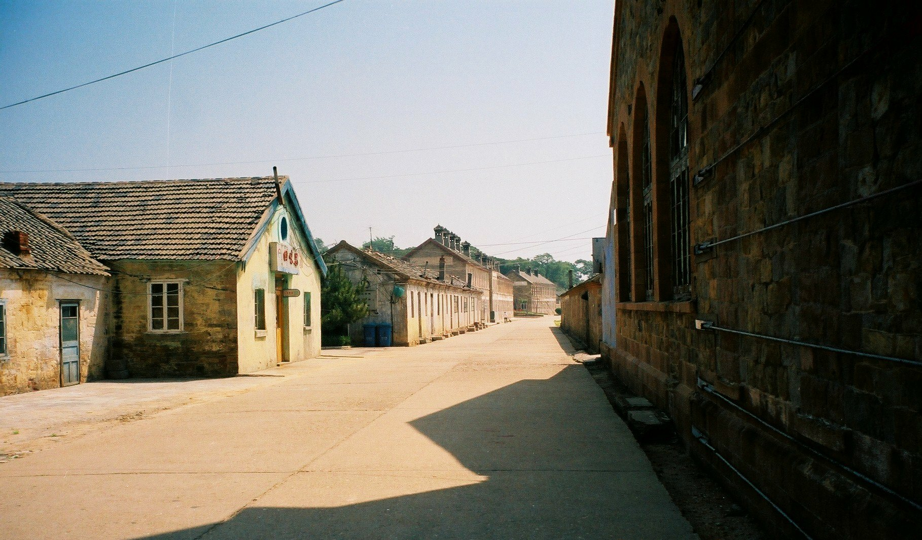 Photograph of historical buildings used by the Navy near the dock on Liugong Island, Shandong Province, China. Picture taken on August 16 2005 by Rolf Müller.